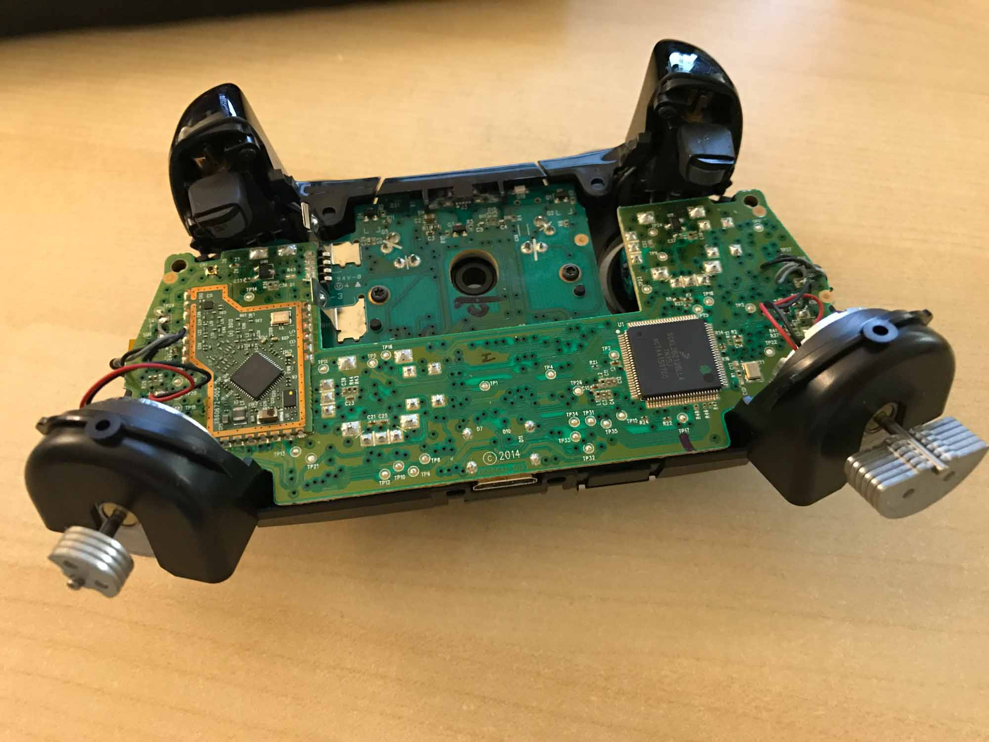 Robison_original_image